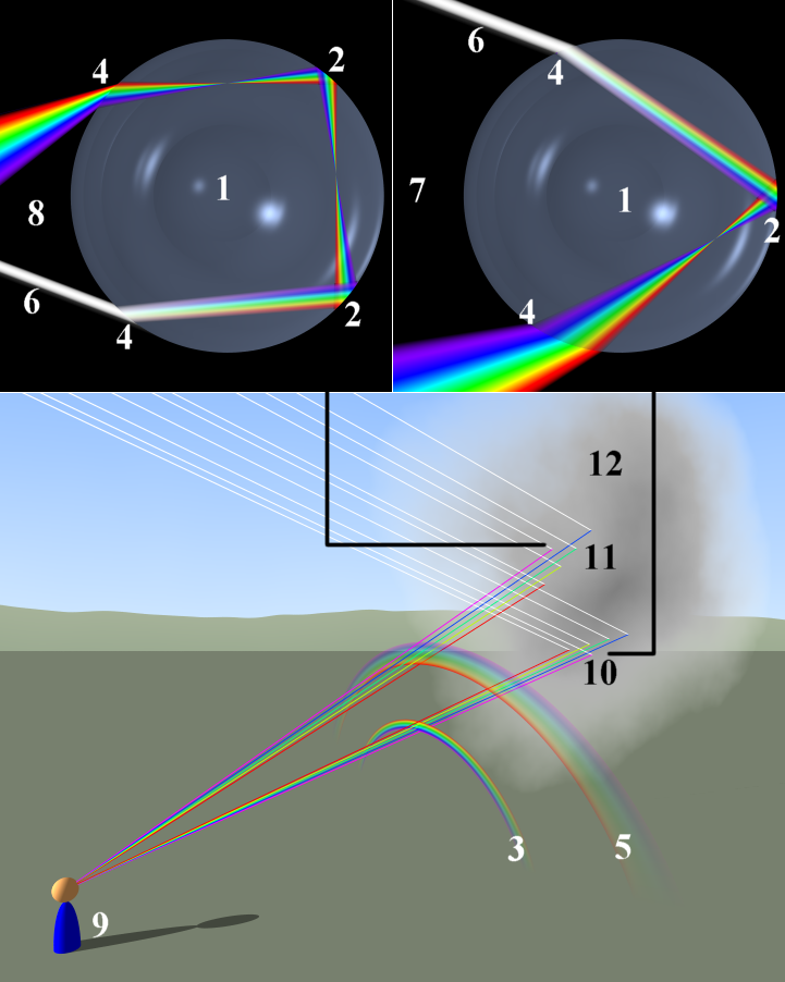 Diagram showing how primary and secondary rainbows are formed due to the light propagation in spherical droplets. Details follow soon! Legend: Spherical droplet Places where internal reflection of the light occurs Primary rainbow Places where refraction of the light occurs Secondary rainbow Incoming beams of white light Path of light contributing to primary rainbow Path of light contributing to secondary rainbow Observer Region forming the primary rainbow Region forming the secondary raimbow Zone in the atmosphere holding countless tiny spherical droplets